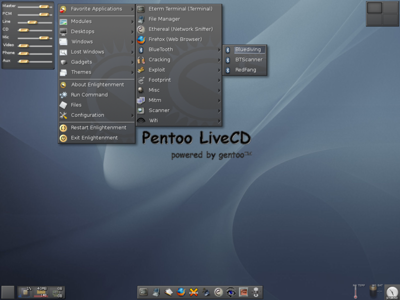 Screenshot of Pentoo. Firefox logo (non-free) in original image replaced by File:User browser firefox.png.)